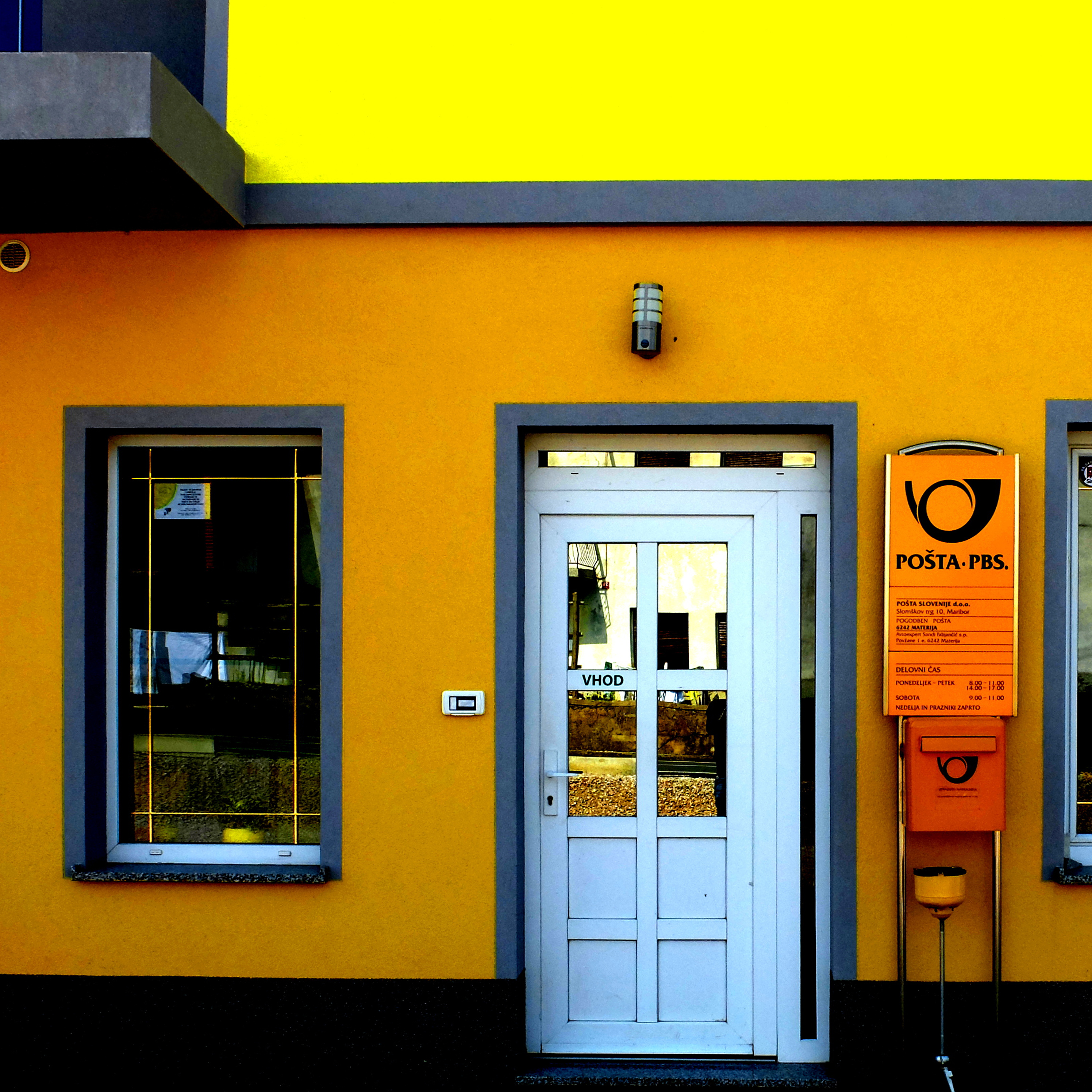 The contract post unit Materija in Povžane.